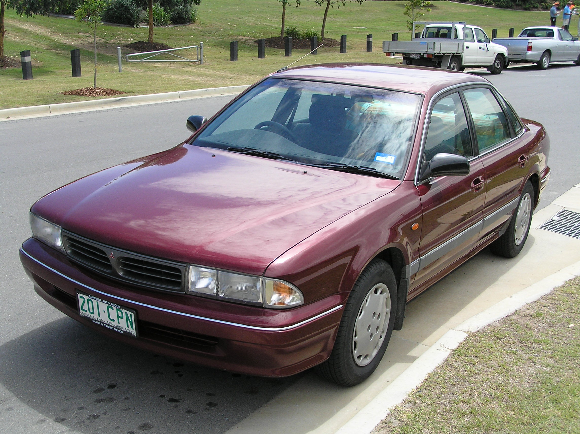 1994 Mitsubishi Magna (TS) Executive V6 sedan. Photographed in Queensland, Australia. Vehicle registration enquiry results Jurisdiction Queensland Registration 201CPN Chassis code 6MMTS6D41RT013771 Year of manufacture 1994